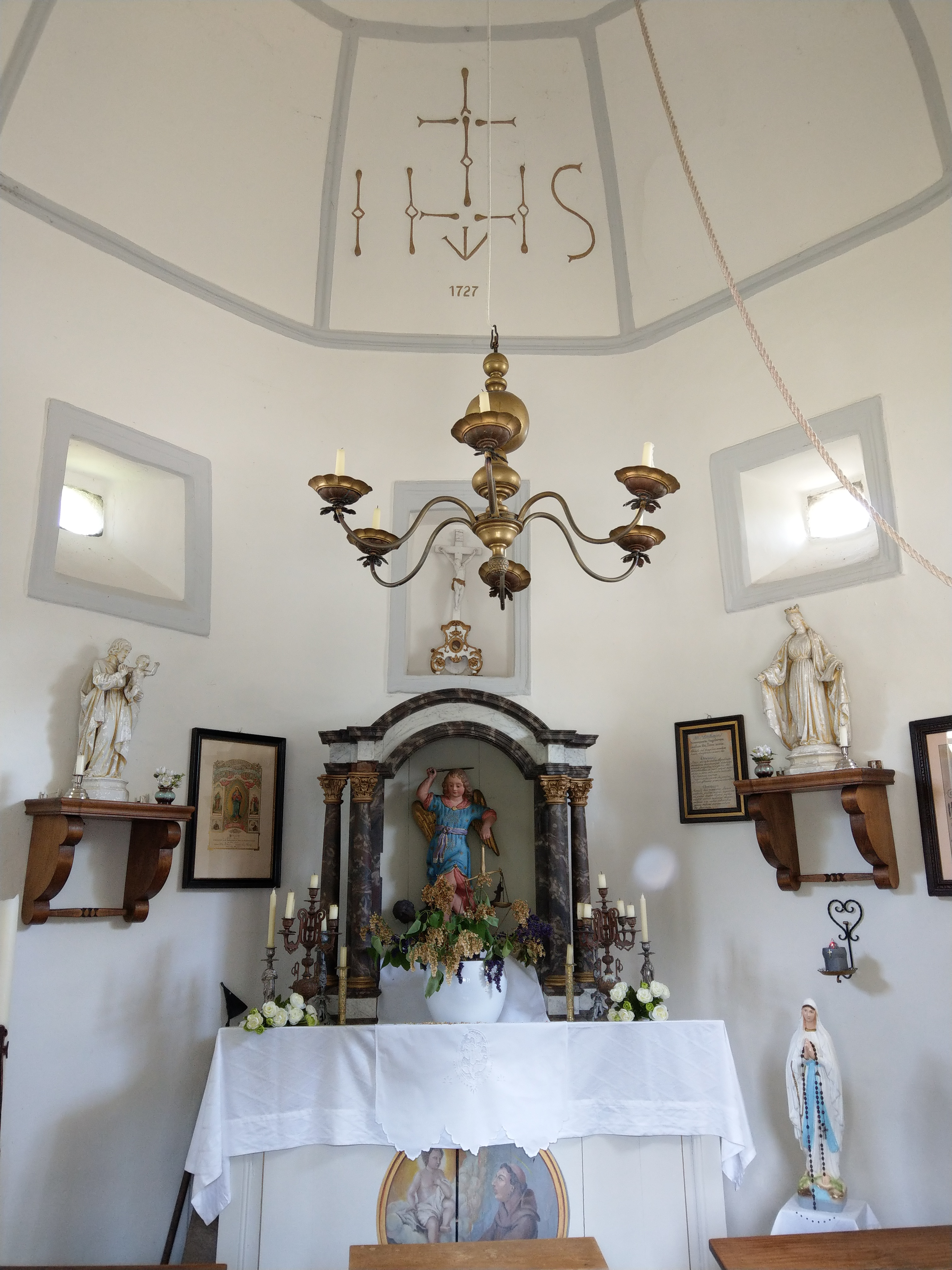 Explanations: See category